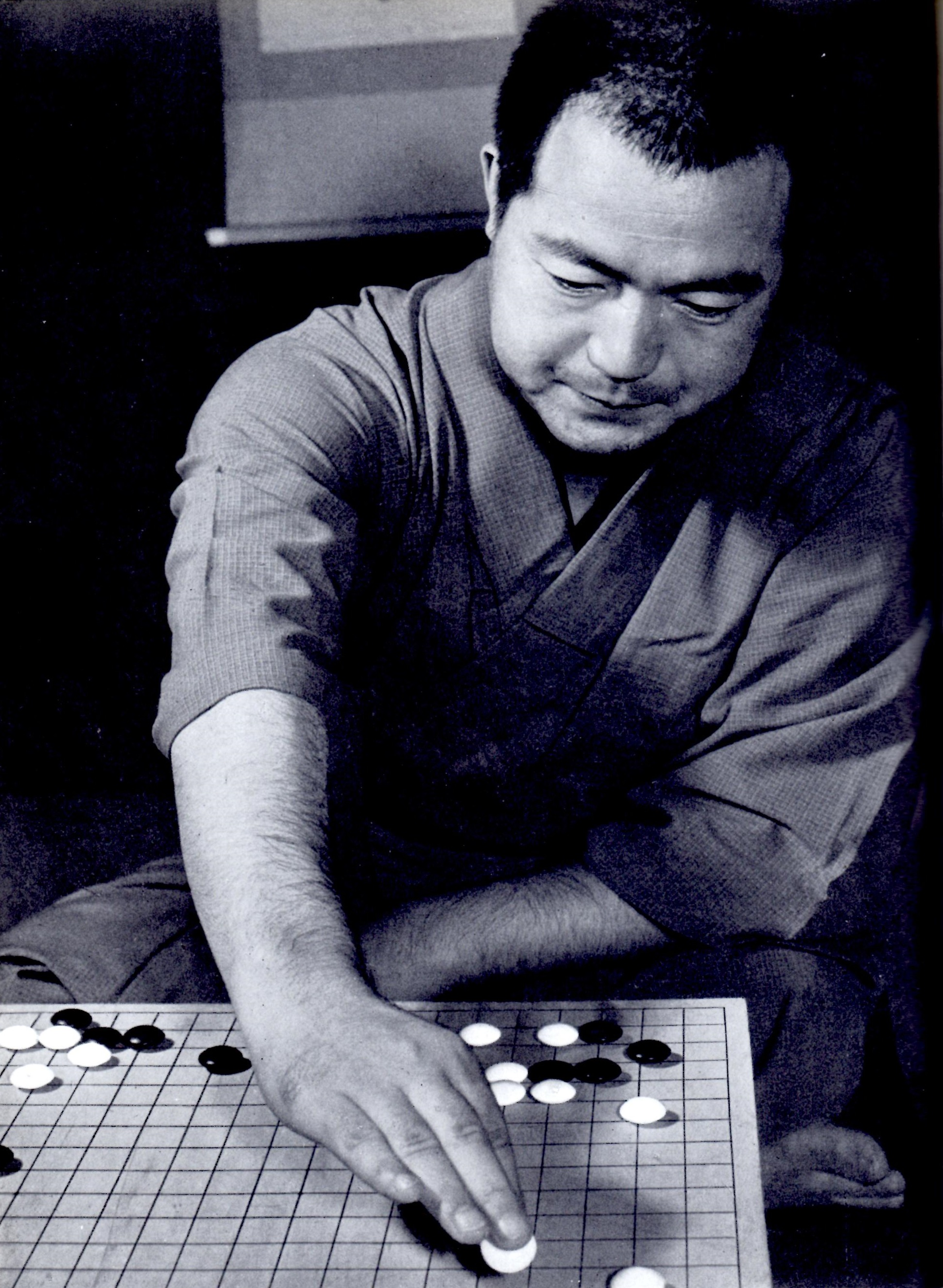 Japanese professional Go player, Fujisawa Kuranosuke (1919-1992)